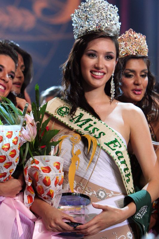 Jessica Trisko of Canada, has been crowned Miss Earth 2007.